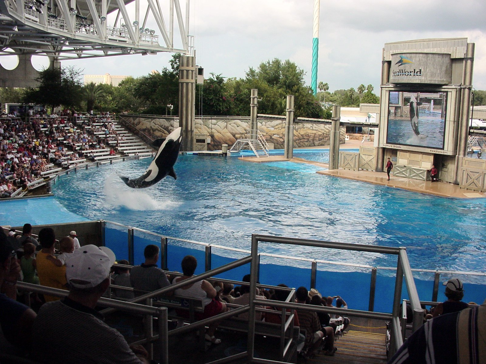 Kalina at SeaWorld Orlando in 2002